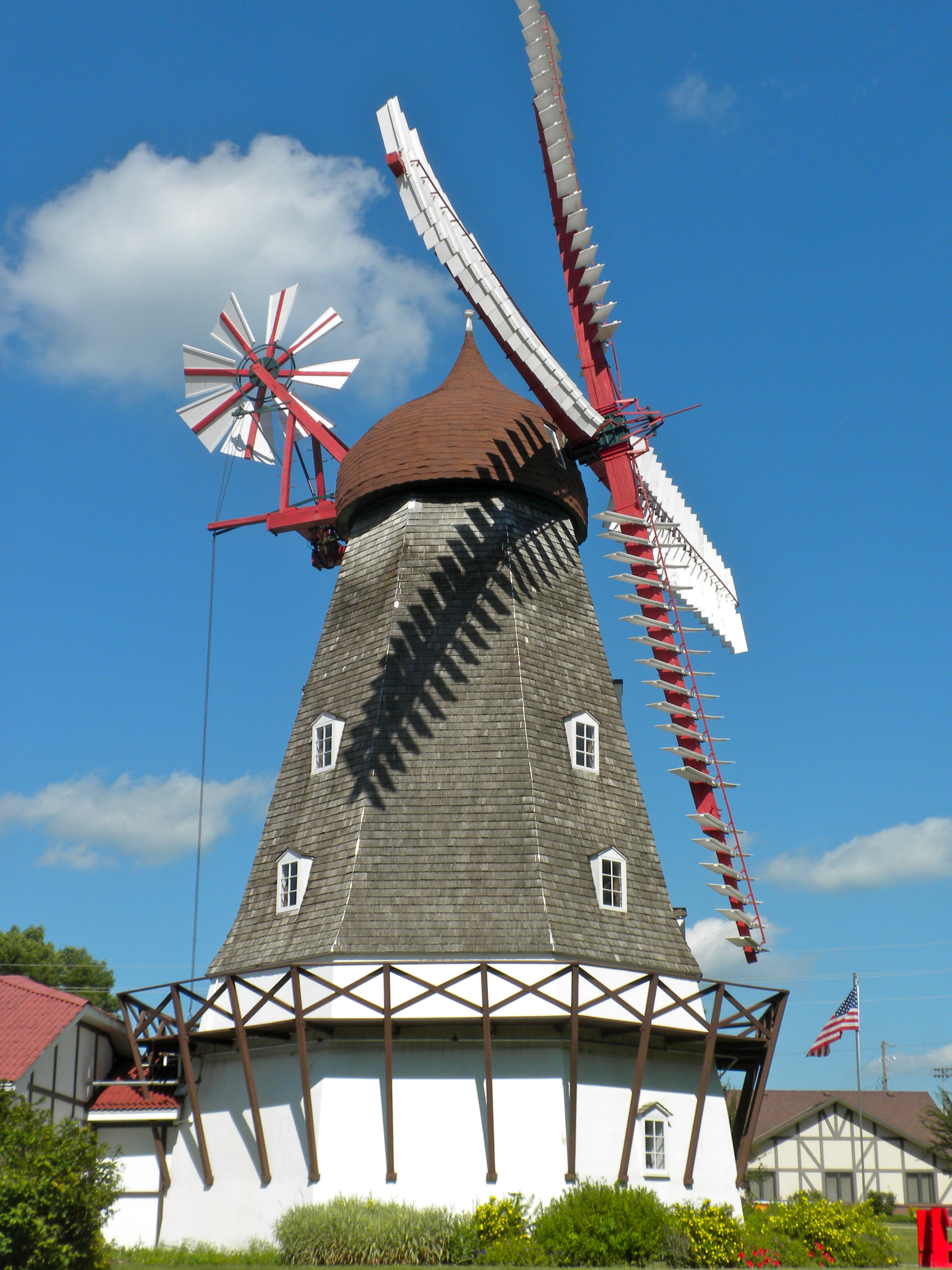 Old windmill, imported from Denmark, now in Elk Horn Iowa (at 4038 Main Street). This was rebuilt in Elk Horn - by Danish ancestry folks and others, about 1960.